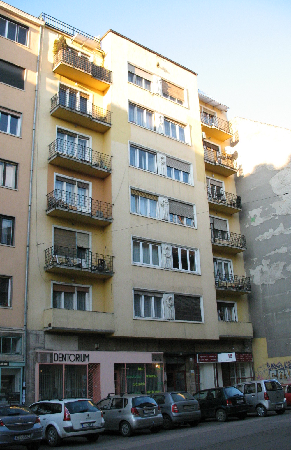 House in Dob utca 46/b in Budapest, where the composer Rezső Seress lived.